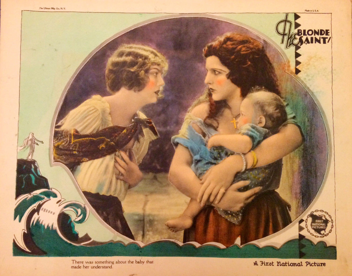 Lobby card for the American drama film The Blonde Saint (1926).